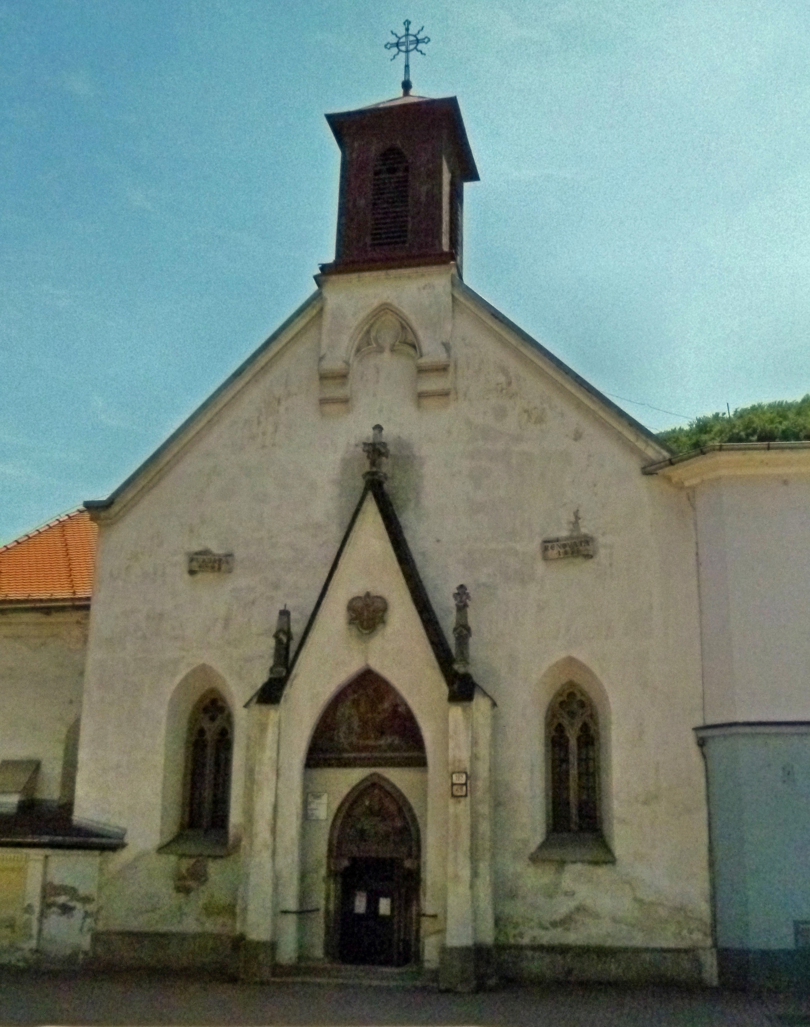 Greek-Catholic church in Banská Bystrica (Slovakia).